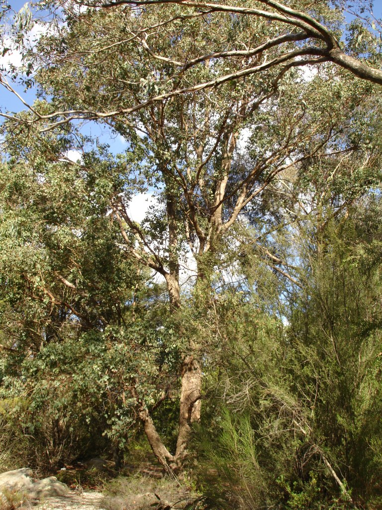 Photographed at Maranoa Gardens, Melbourne, Victoria, Australia HelloMojo 07:55, 6 April 2007 (UTC)